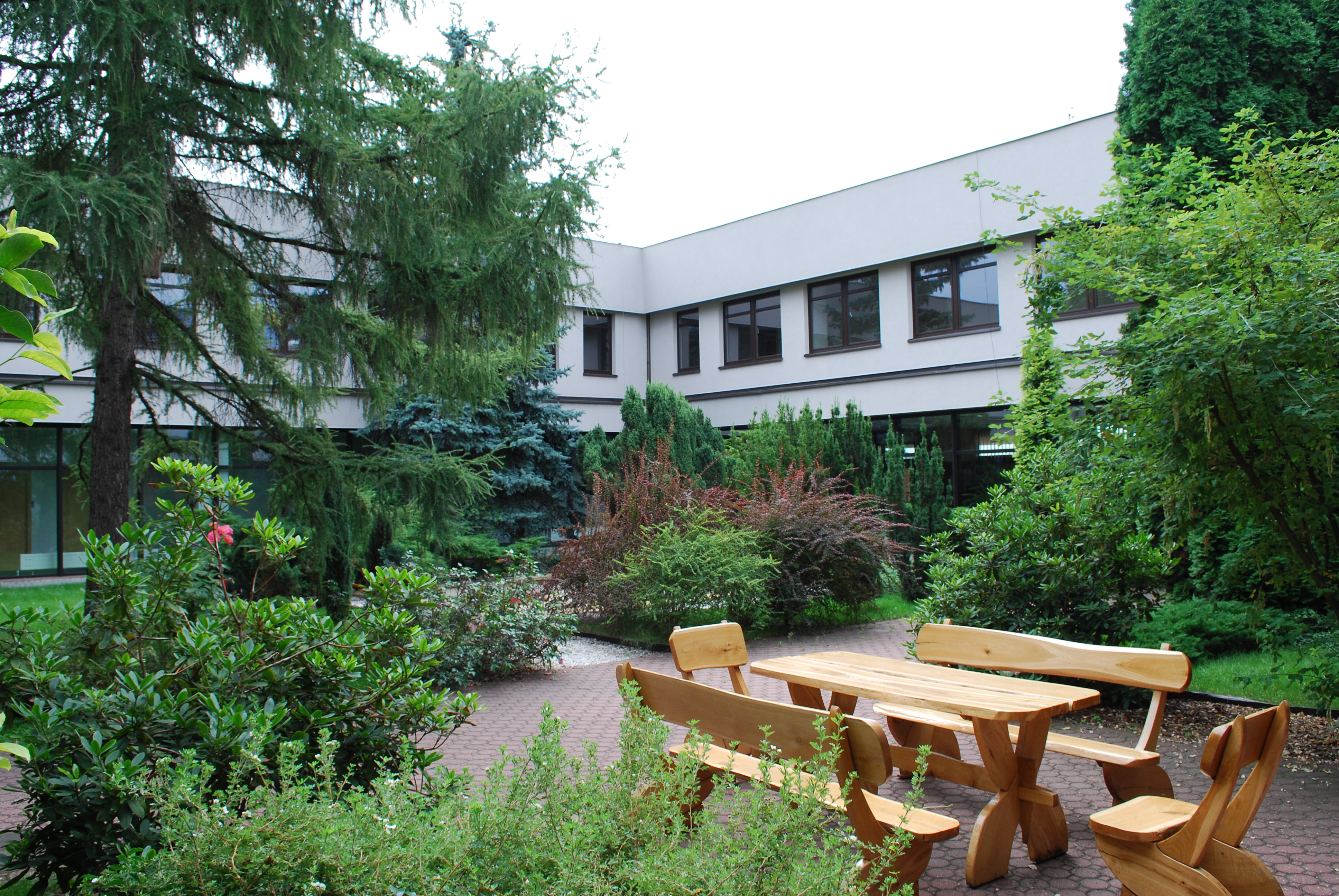 Building of Centrum Astronomiczne im. Mikołaja Kopernika PAN - internal patio